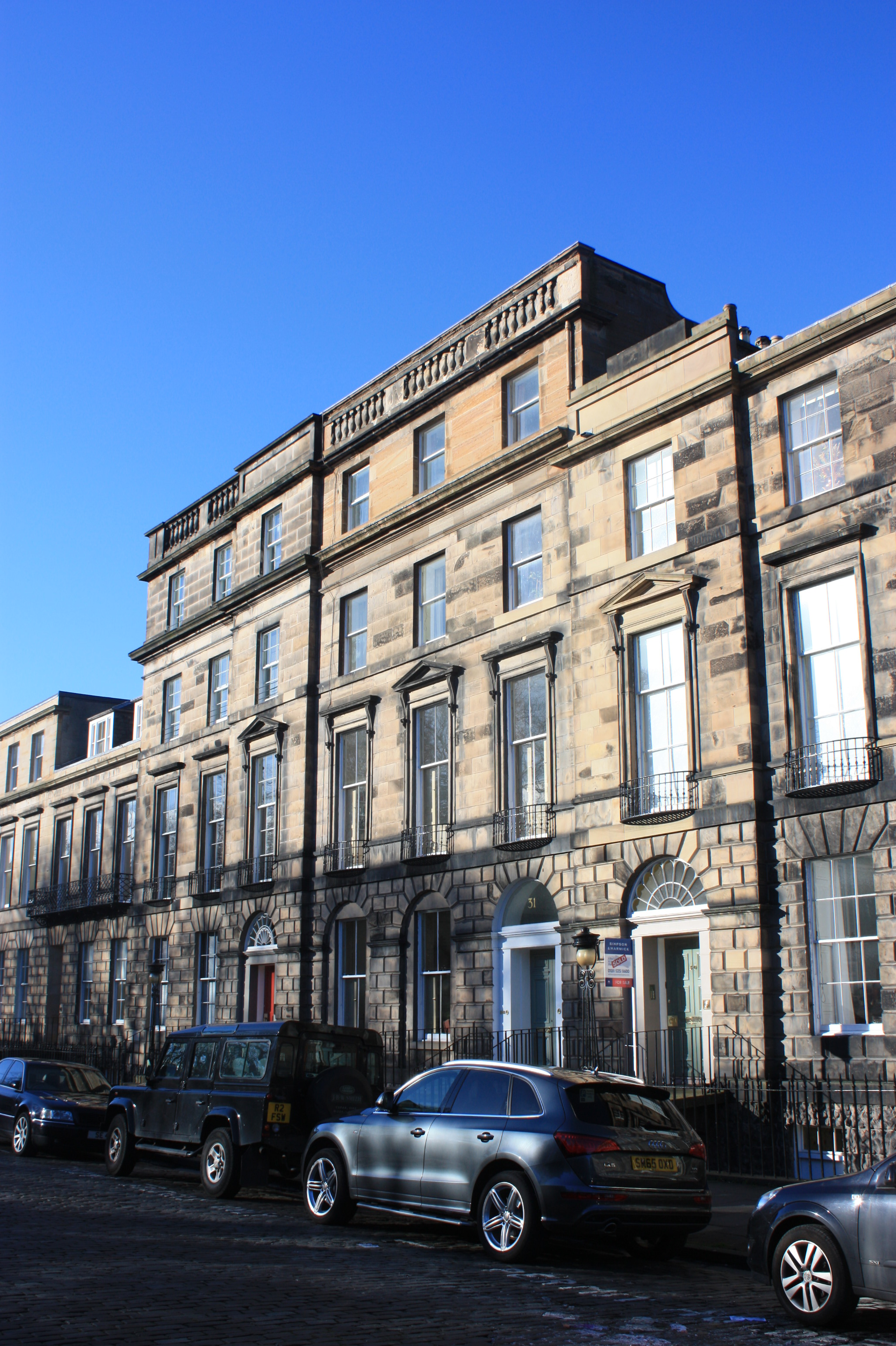 31 Heriot Row, Edinburgh